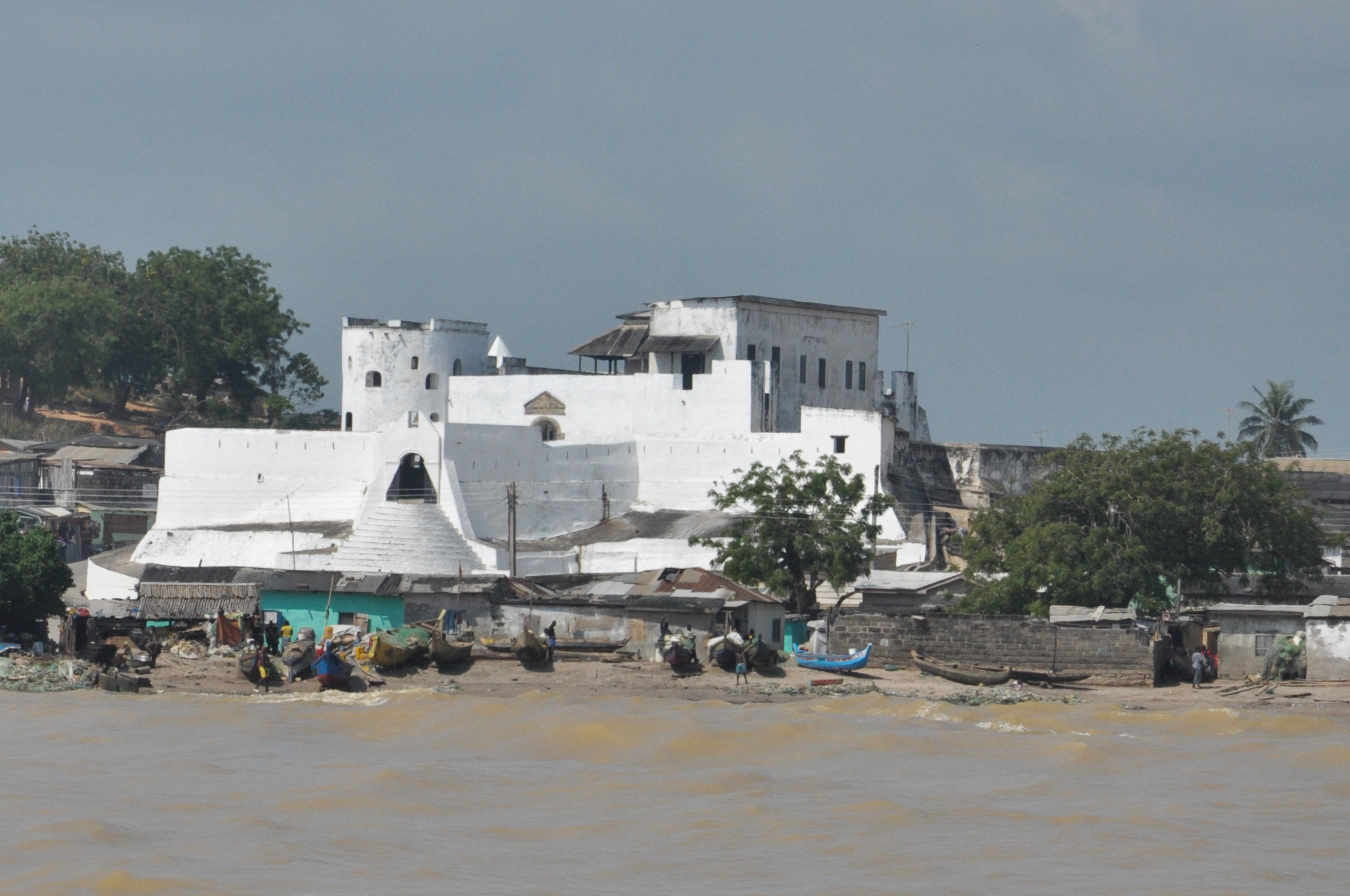 This was shot from a fishing boat getting closer to the shore after the day's catch